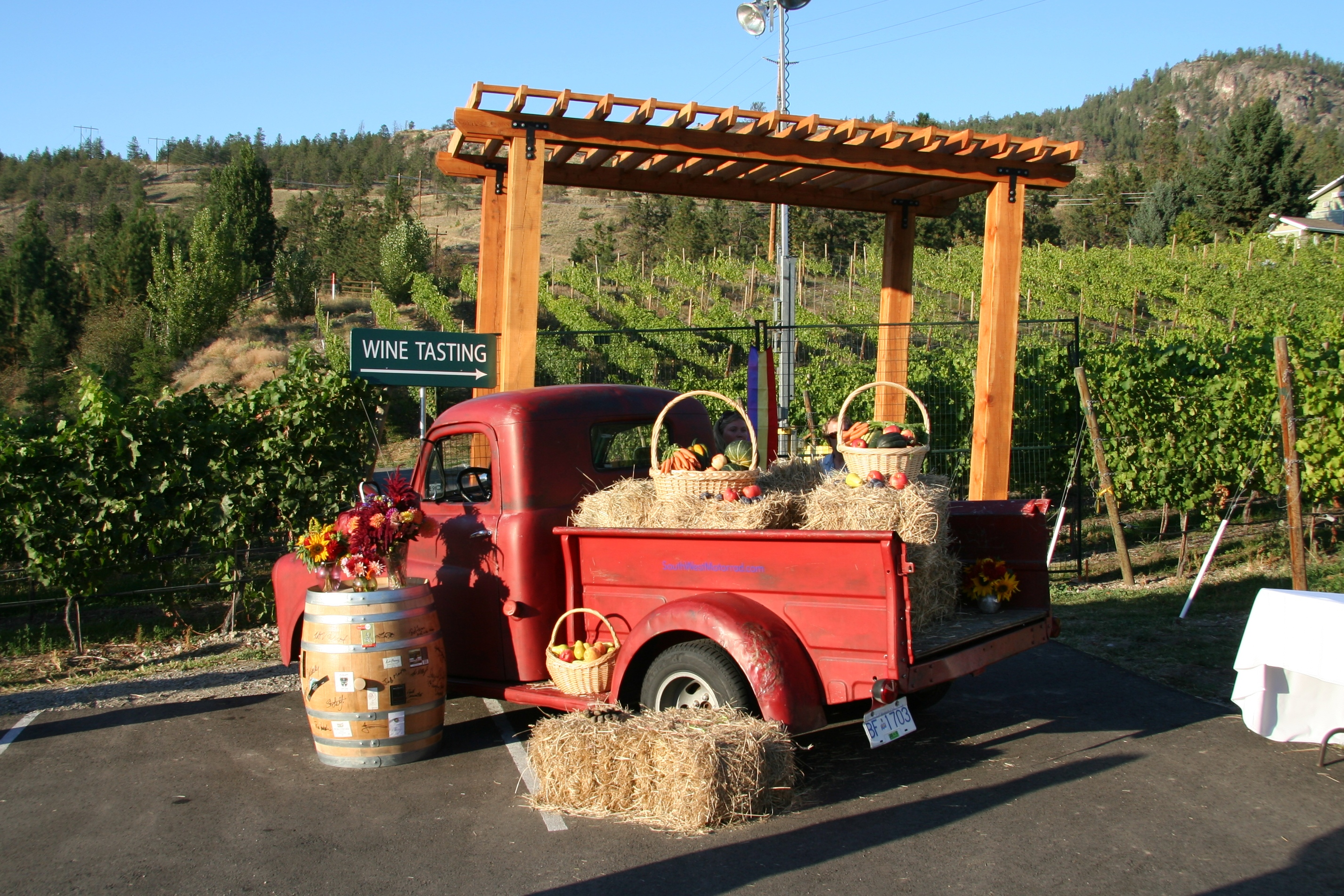 A wine tasting held at the La Frenz Winery in Naramata, British Columbia.